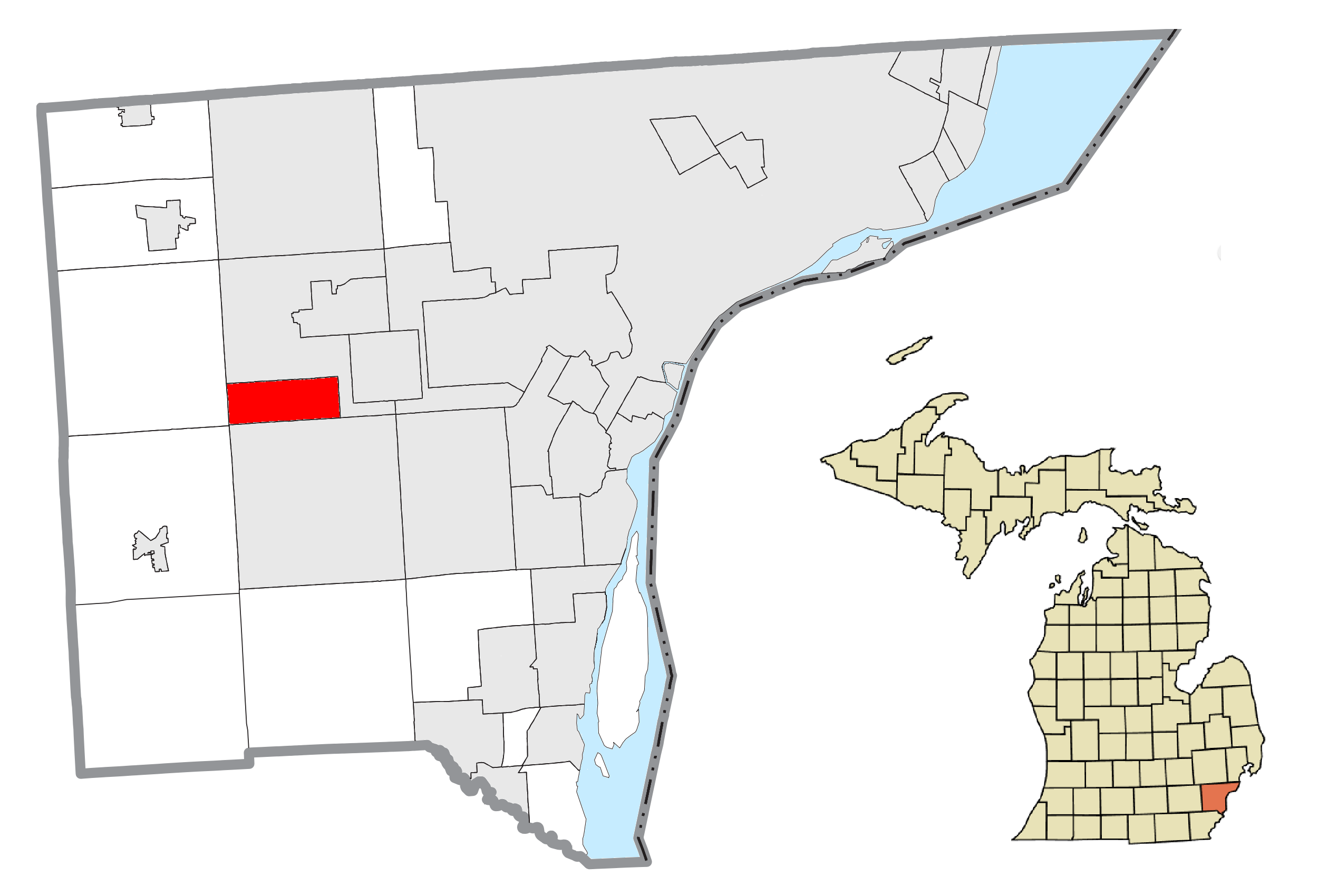 Wayne, MI